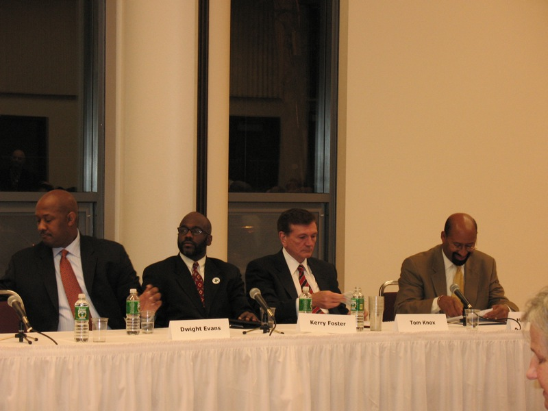 Dwight Evans at a Canidates Forum